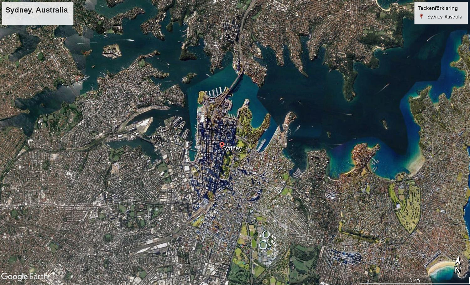 Sydney, Australia, 2019